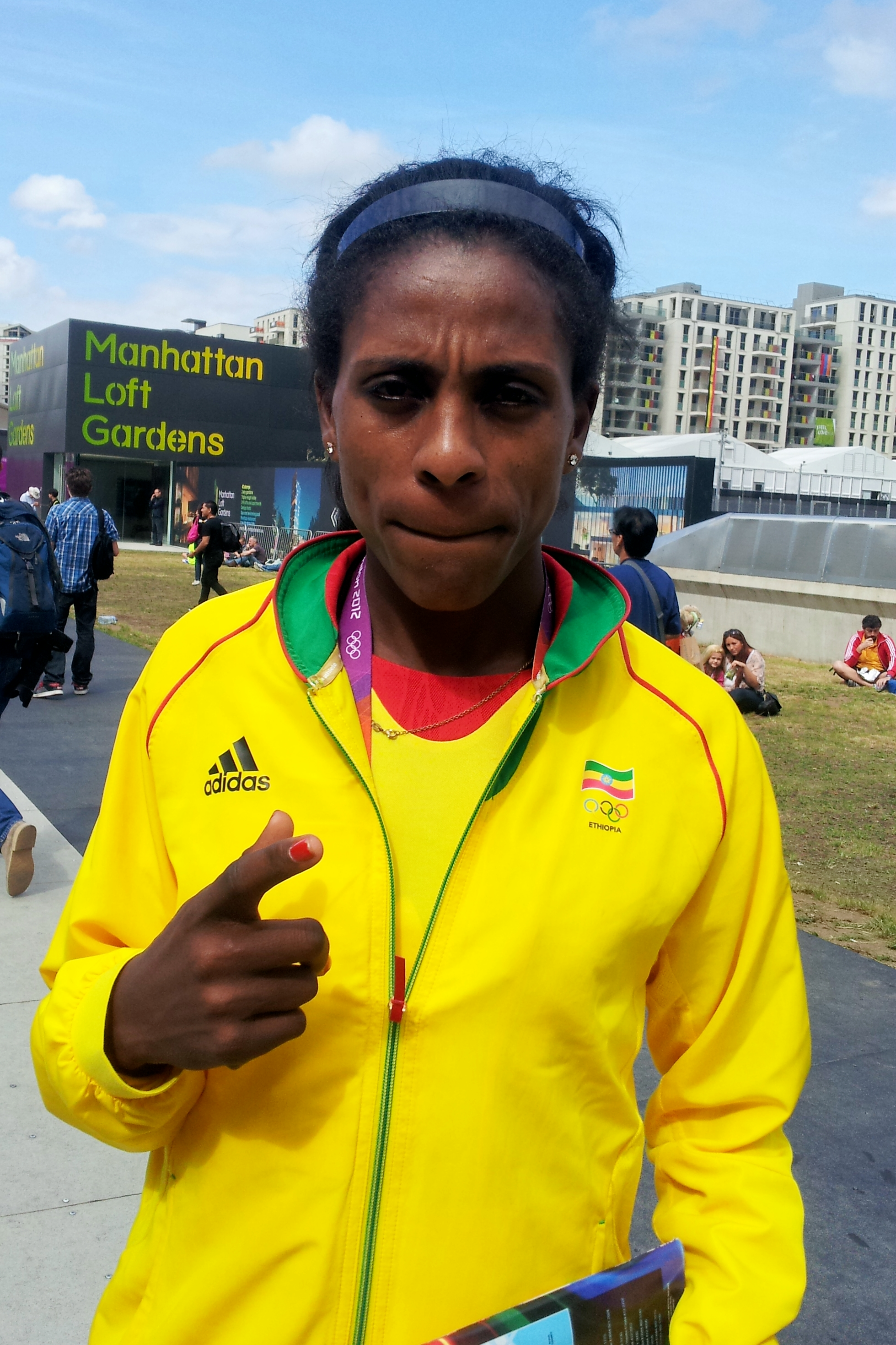 Ethiopian 800m sprinter Fantu Magiso, taken at The London 2012 Summer Olympic Games